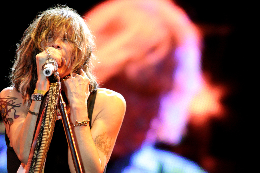 Aerosmith - Steven Tyler